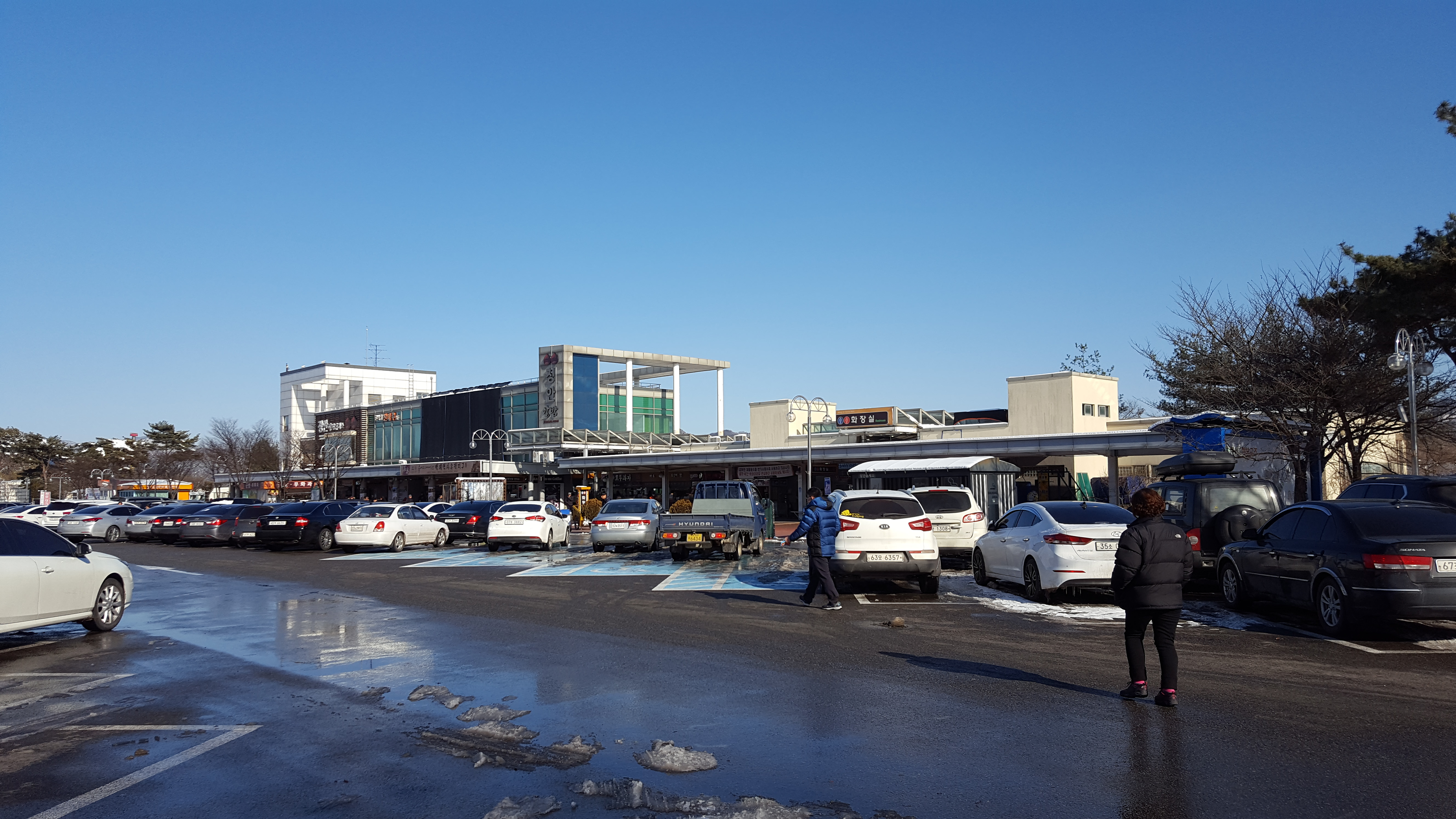 Jeongan Service area